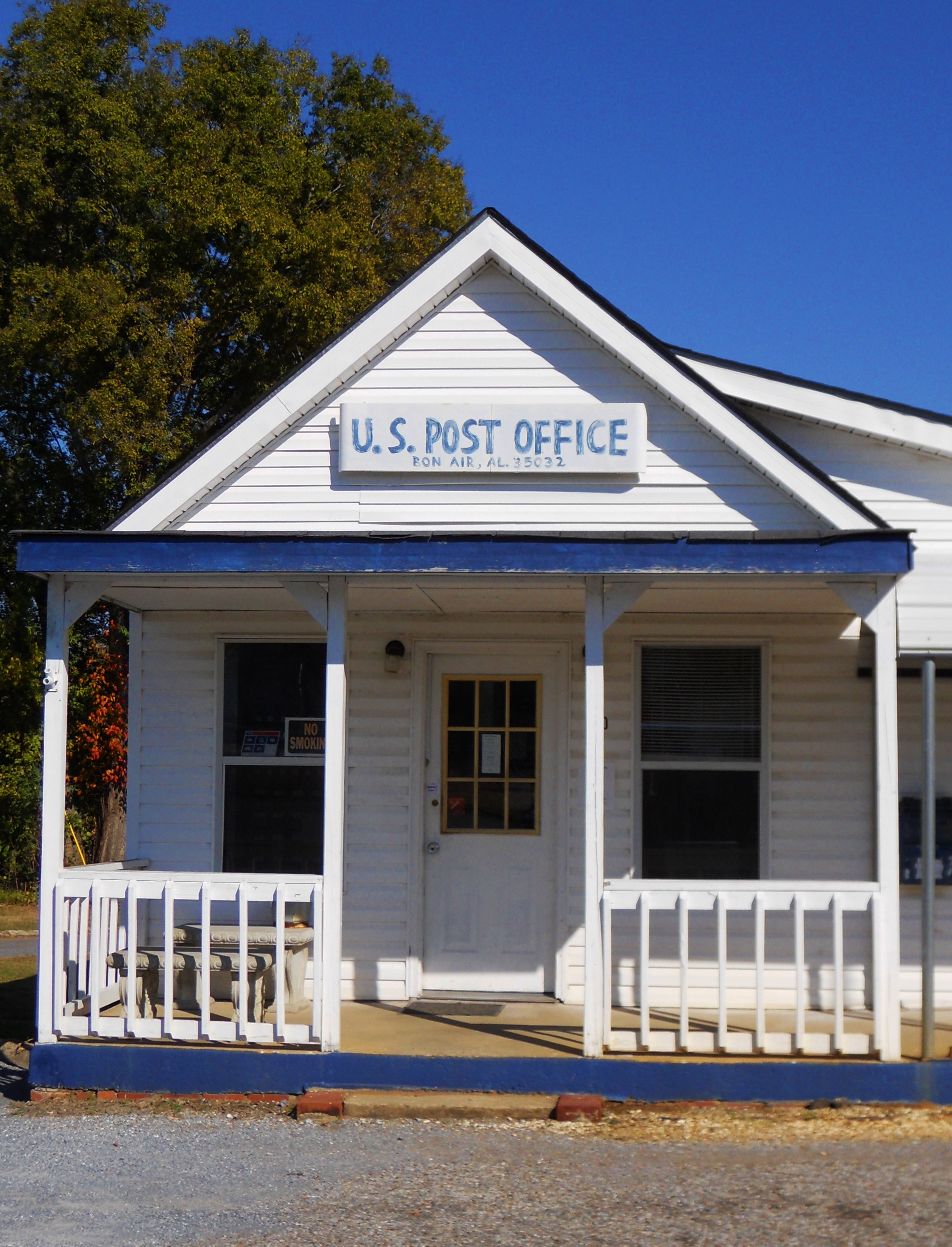 This is a photograph of the post office in Bon Air, Alabama.